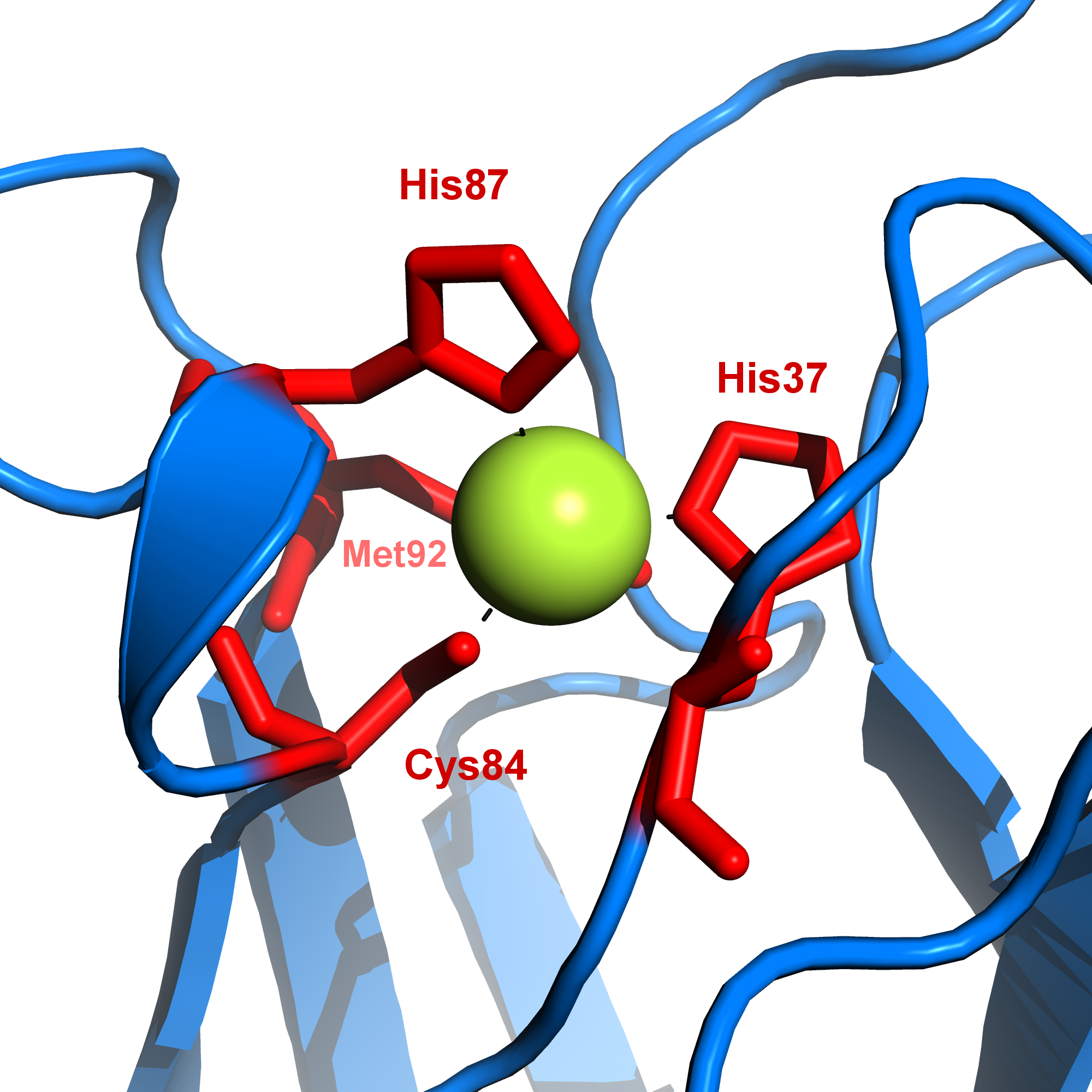 copper binding site of plastocyanin from spinach, according to PDB 1AG6 showing copper(II) (green) with highly conserved aminoacids (red)